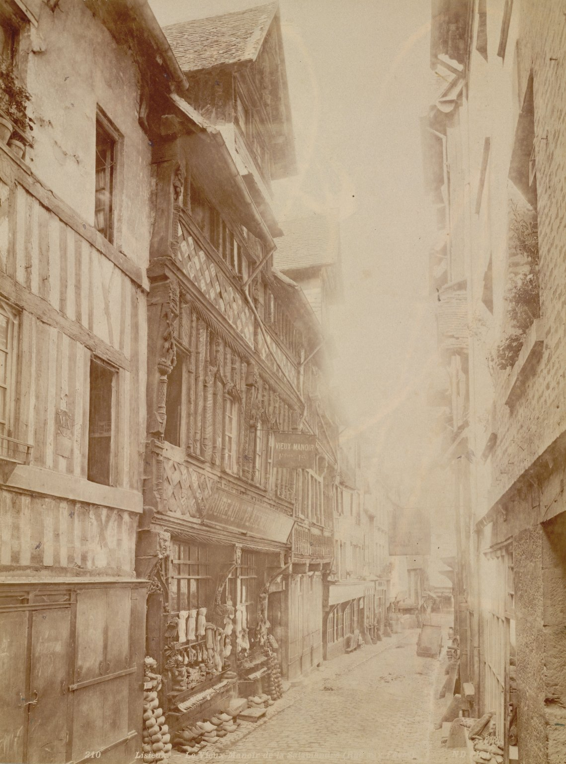 Collection: A. D. White Architectural Photographs, Cornell University Library Accession Number: 15/5/3090.01364 Title: Lisieux. The Ancient House of the Salamander Photographer: Neurdein Frères (French, active ca. 1863-1912) Photograph date: ca. 1865-ca. 1895 Building Date: ca. 1400-ca. 1499 Location: Europe: France; Lisieux Materials: albumen print Image: 10.5512 x 7.7953 in.; 26.8 x 19.8 cm Style: Late Gothic Provenance: Transfer from the College of Architecture, Art and Planning Persistent URI: There are no known copyright restrictions on this image. The digital file is owned by the Cornell University Library which is making it freely available with the request that, when possible, the Library be credited as its source. We had some help with the geocoding from